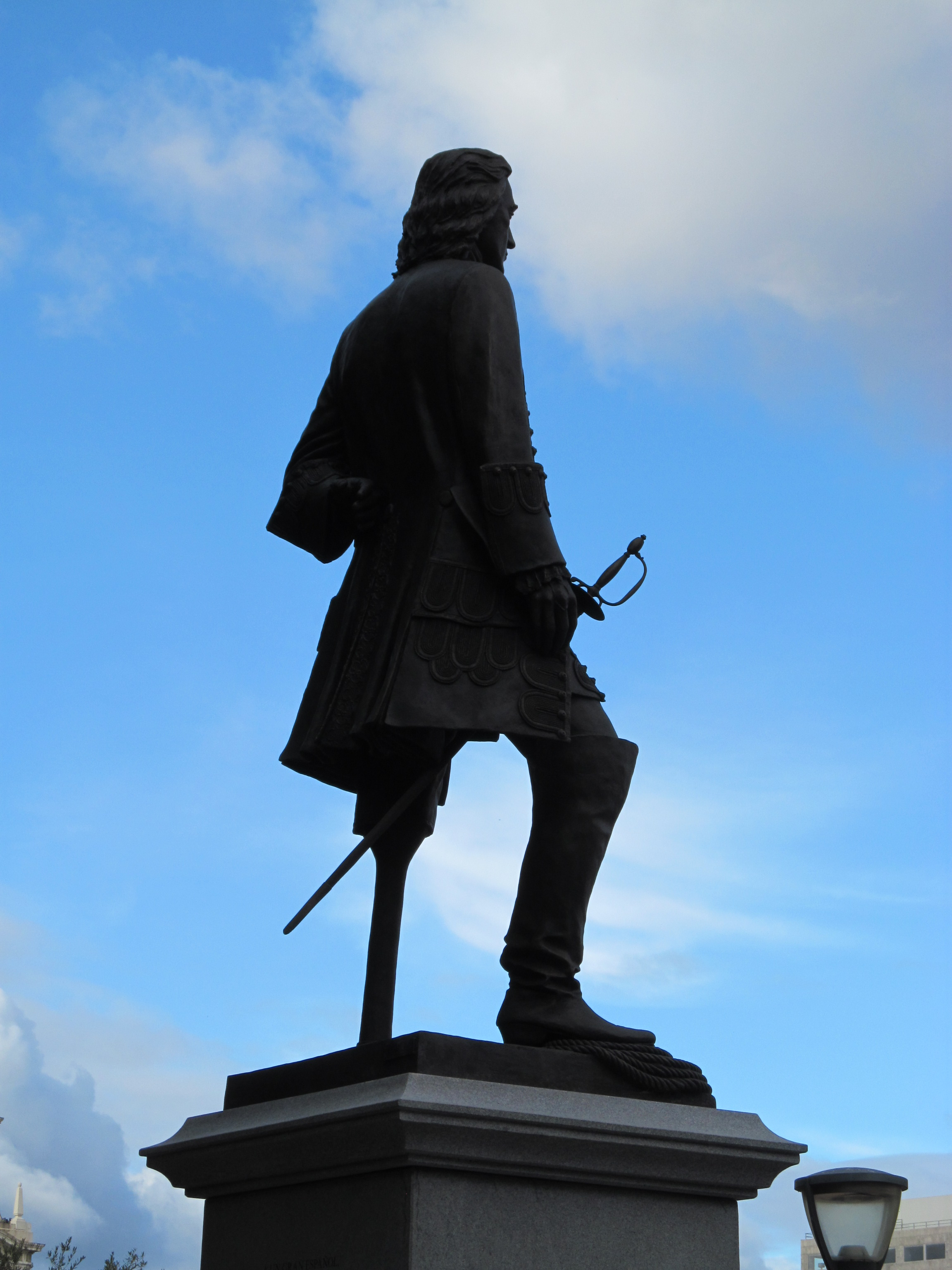 Monument in Madrid to Blas de Lezo, the hero of Cartagena de Indias, an official one-eyed, lame and one-armed of the Spanish Navy which resisted the attack of 195 English ships with just 6 ships during the 18th century.